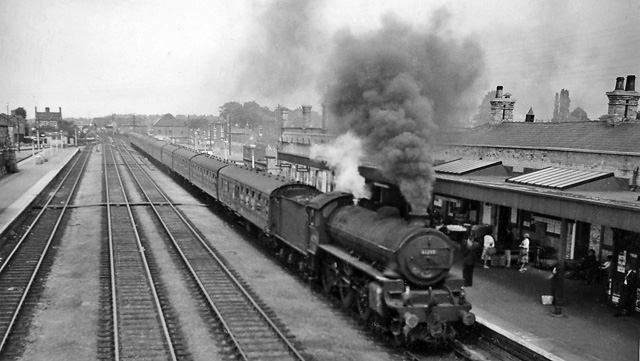 Boston Station, with train. View northward, towards Firsby and Grimsby, also Lincoln. The photograph shows Boston station on a Summer Saturday in its days of decline. At the Up main platform is a filthy Class B1 4-6-0 on a Mablethorpe - Derby express. This would have come by the Mablethorpe Loop off the ex-GNR East Lincolnshire main line, which itself was closed on 5/10/70 all the way from Grimsby down to Firsby South Junction and from Boston to Spalding; the line from Lincoln via Woodhall Junction had already been closed on 17/6/63. Ever since, Boston has been a small station on the surviving line from Nottingham and Grantham to Skegness.